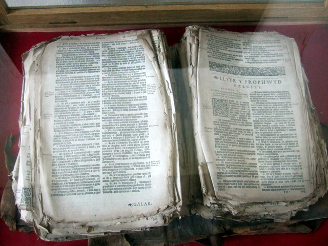 Still surviving... Tattered Welsh bible of 1620 in Llanwnda church is said to have been rescued from the hands of French invaders in 1797 - they made off with a silver chalice instead.